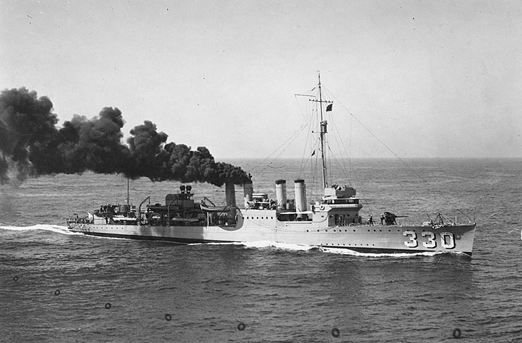 The U.S. Navy destroyer USS Hull (DD-330) making smoke, during the 1920s.